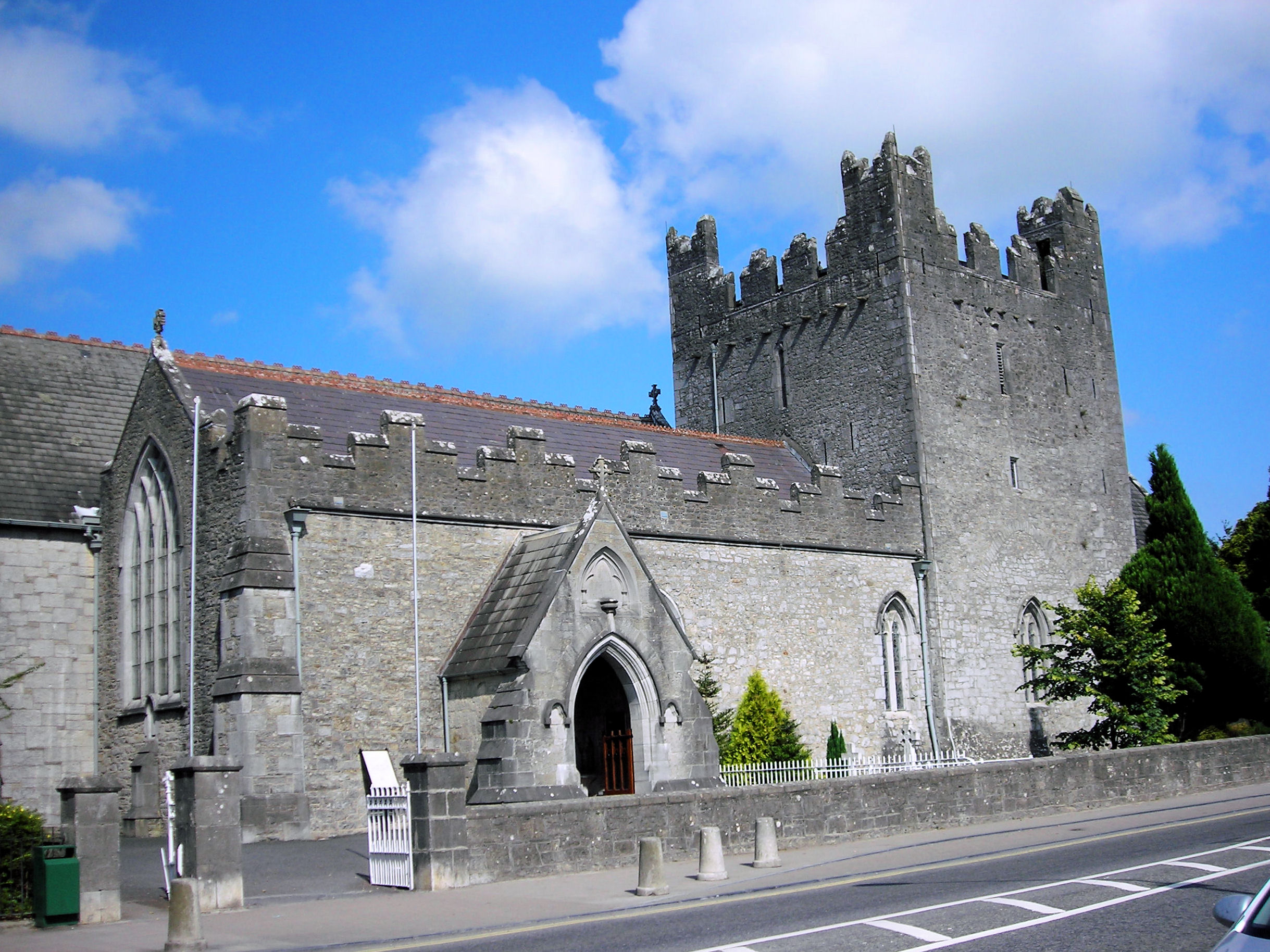 The "Holy Trinity Abbey", used as the local Roman Catholic Church, in Adare, Limerick, Ireland.